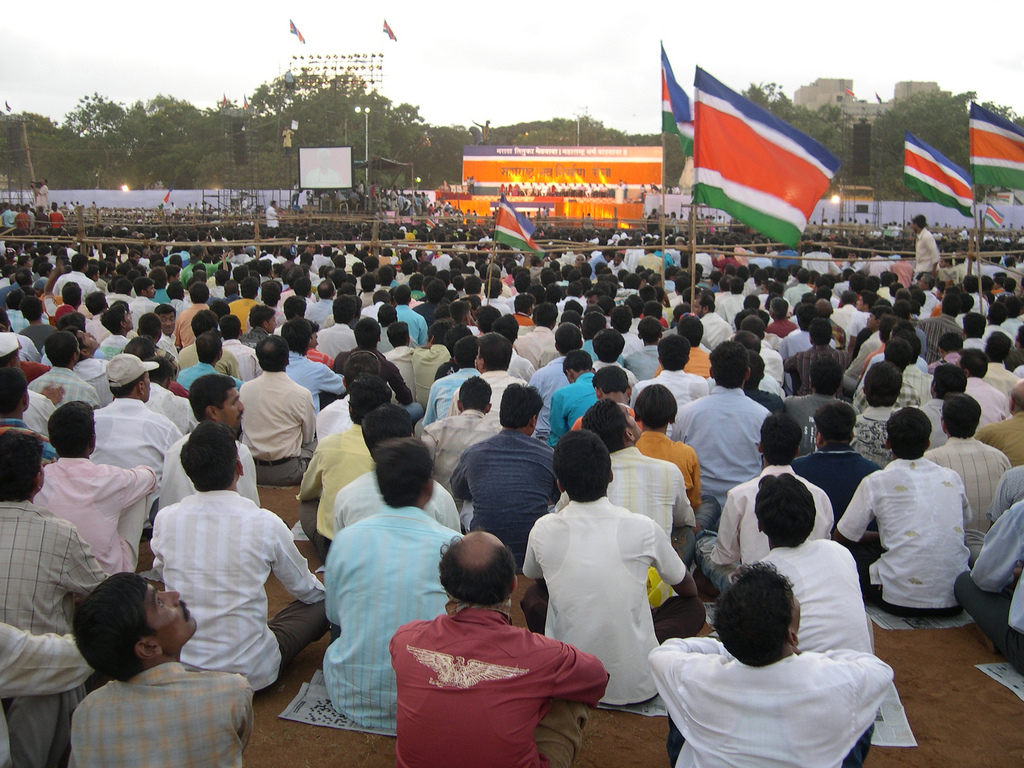 Maharashtra Navnirman Sena rally at Shivaji Park on May-3-2008.